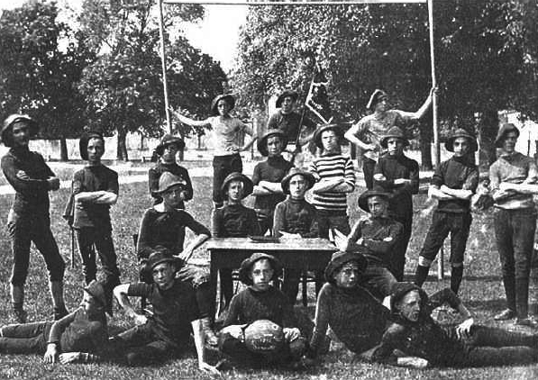 Photo of FC Servette in the year 1892